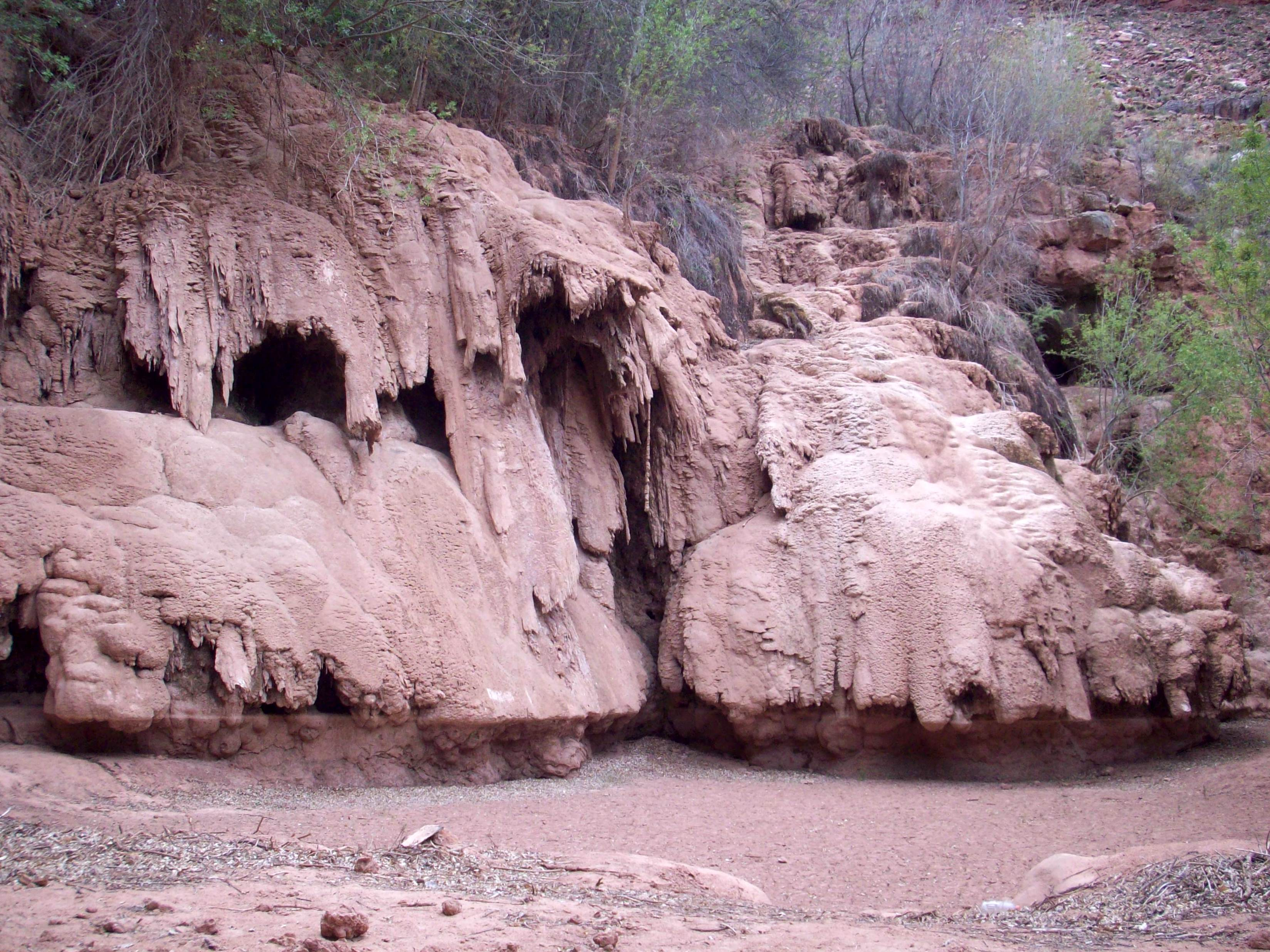 Navajo Falls after the major flood of August 2008 in Havasupai. The stream bypasses the falls which are now completely dry.